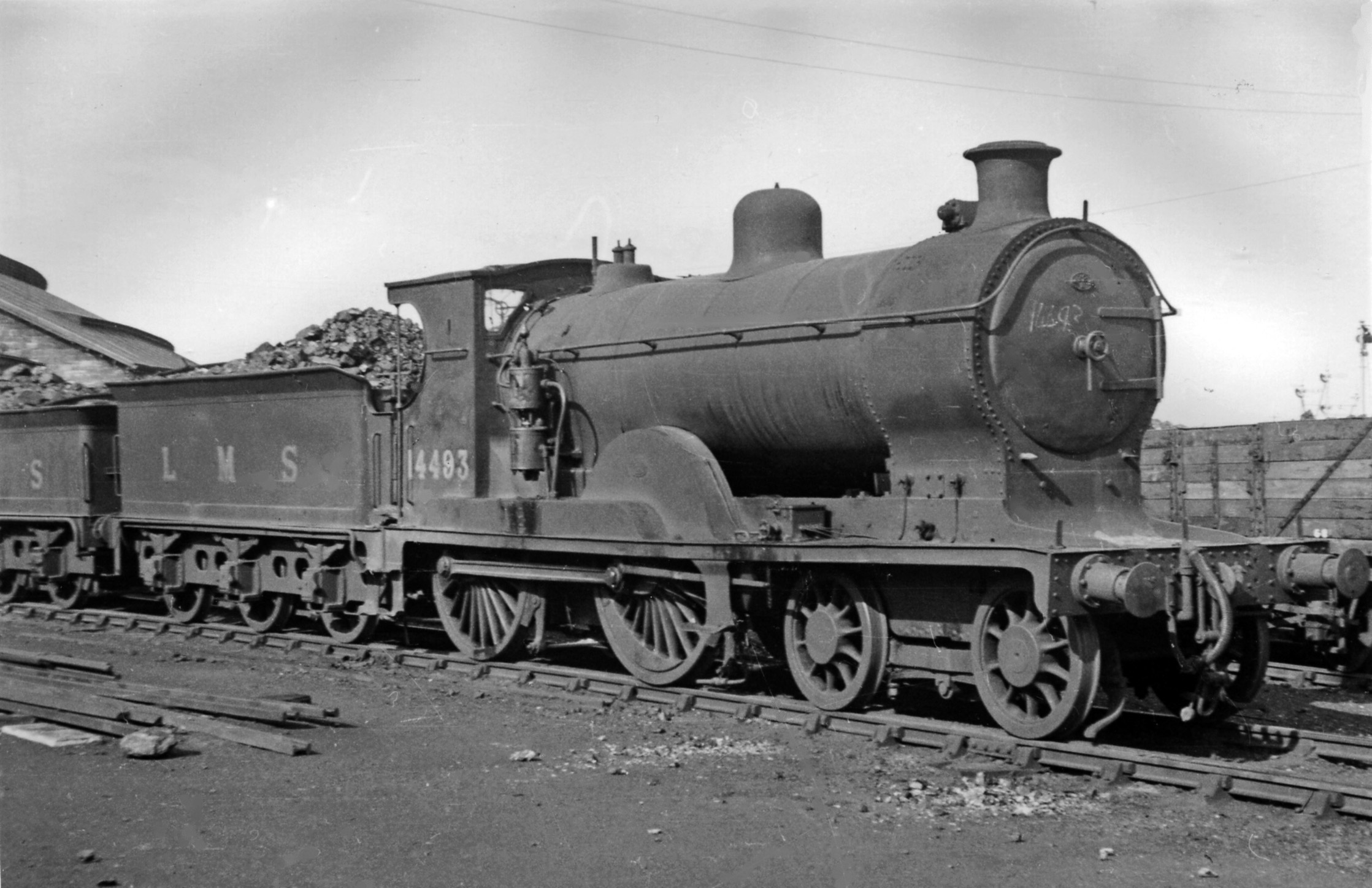 Caledonian 4-4-0 at Inverness Locomotive Depot. In the first year of Nationalisation, Pickergill '72' class No. 14493 is still in LMS livery. Inverness Depot was the principal Depot of the former Highland Railway (coded 60A by BR/ScR), providing most of the motive power of the LMSR Highland lines, from Perth and Aberdeen to the Far North. In 1946 it had an allocation of 71:- 37 4-6-0, 15 4-4-0, 8 0-6-0, 6 0-6-0T, 3 0-4-4T, 1 0-4-2T and 1 0-4-0T.